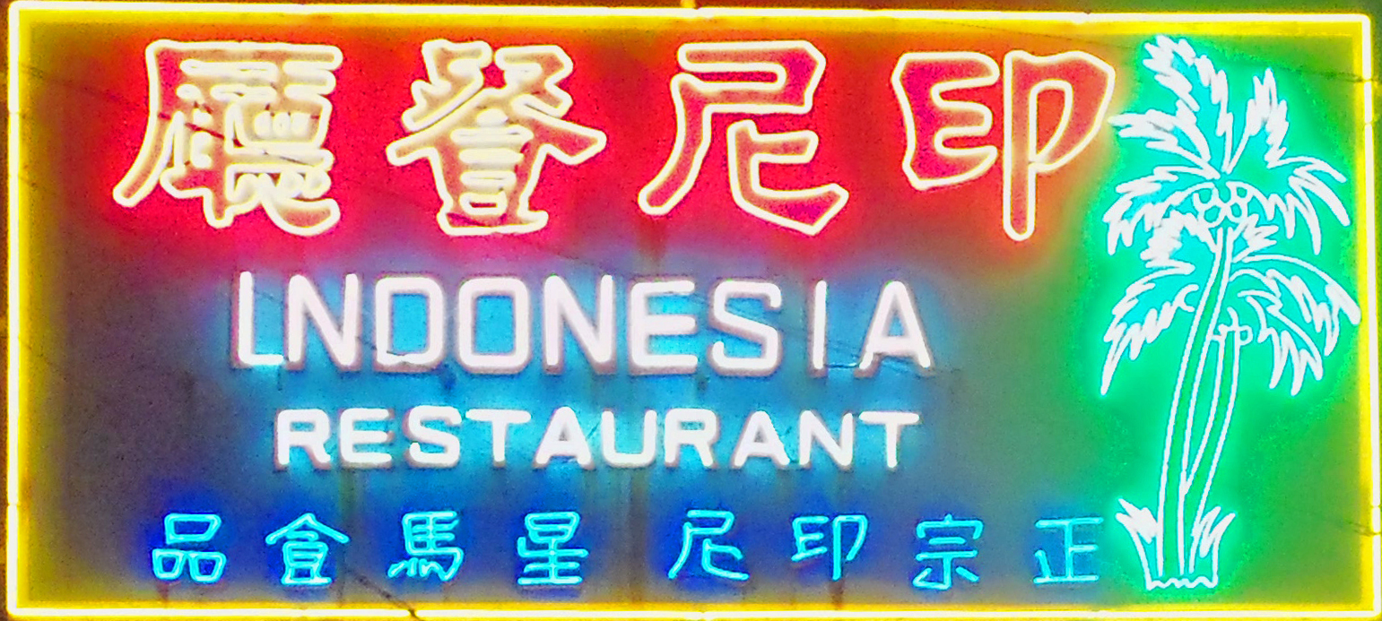 Looking west down Granville Road from Chatham Road in Tsim Sha Tsui, KKowloon, Hong Kong, at night